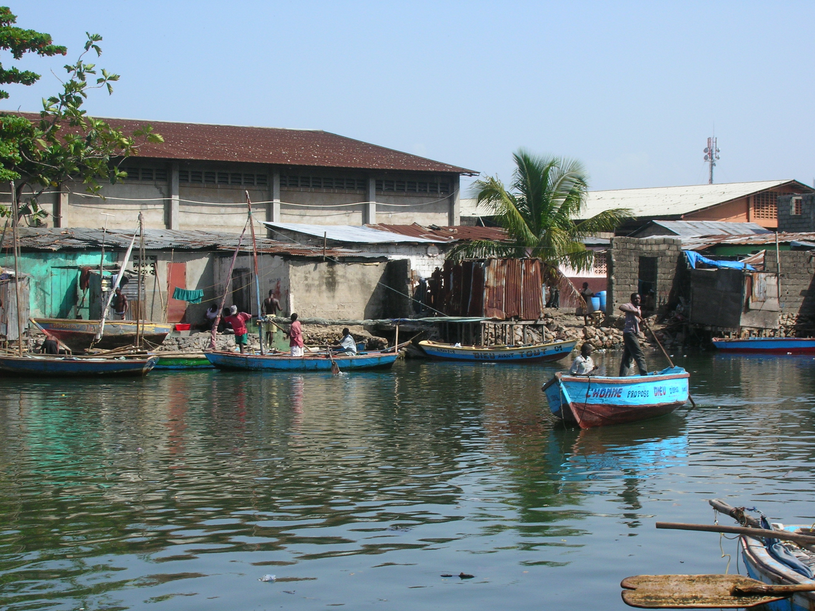 A rudimental river crossing in Cap-Haitien, Haiti, done with small boats.